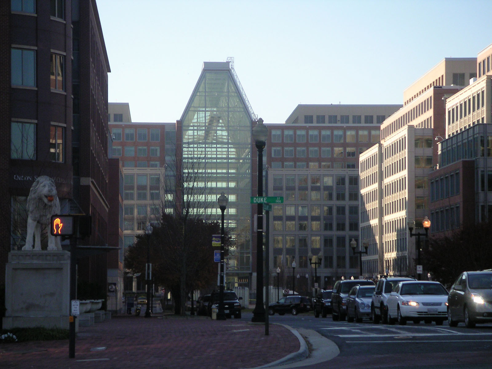 United State Patent and Trademark Office Headquarters, Alexandria, VA